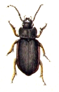 Anisodactylus signatus, from Calwer's Käferbuch, Table 5, Picture 19. Taxonomy was updated to 2008, using mostly the sites Fauna Europaea and BioLib. Please contact Sarefo if the determination is wrong!